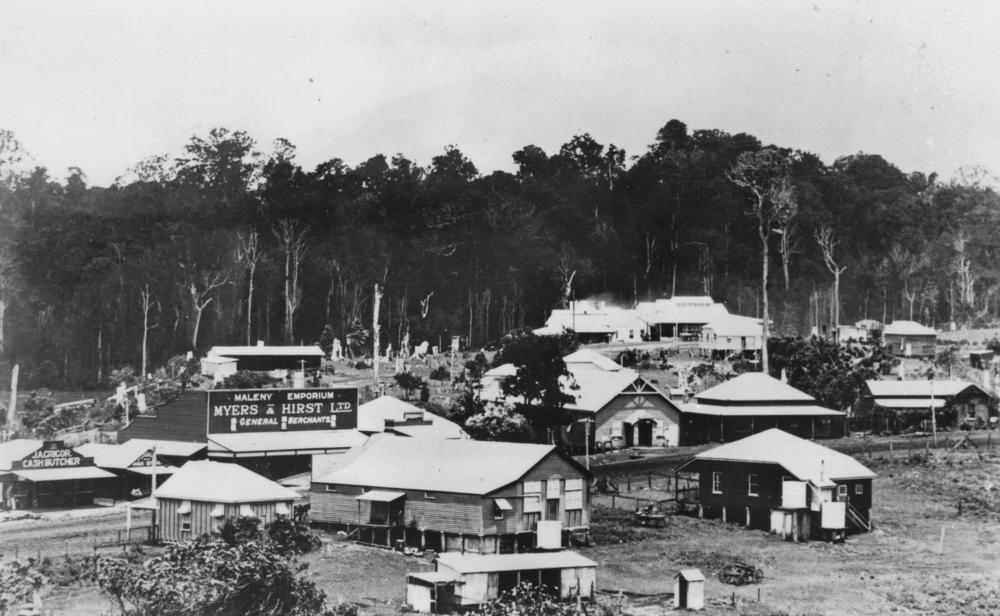 Main centre of Maleny, ca. 1922. View shows shops and buildings in the centre of Maleny. Shops include Myers & Hirst Ltd., general merchants, trading as Maleny Emporium and J. A. Crigor cash butcher.